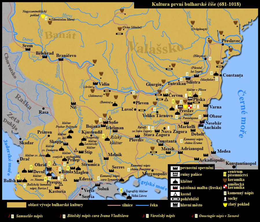 Culture of the First Bulgarian Empire (681-1018)